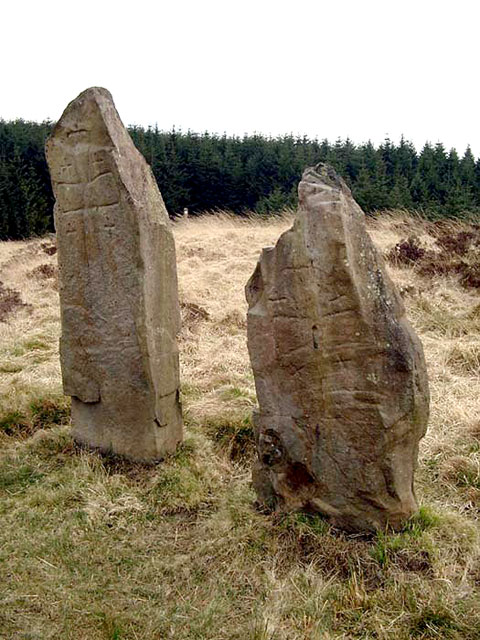 Laggangairn Standing Stones. The markings are relatively recent (8th Century!)